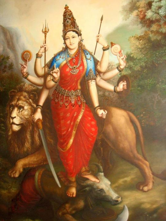 ಶ್ರೀ ಚಾಮುಂಡೇಶ್ವರಿ ದೇವಿ - ಶ್ರೀ ಶಿಲ್ಪಿ ಸಿದ್ದನ್ತಿ ಸಿದ್ದಲಿಂಗ ಸ್ವಾಮಿ